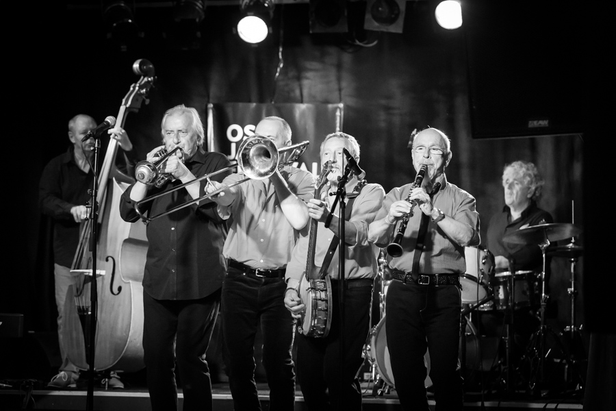 Les Haricots Rouges at the stage of Stortorvets Gjæstgiveri. The concert was part of the Oslo Jazz Festival in Norway and took place on 19. August 2016. Lineup: Pierre Jean (trumpet) Christophe Deret (trombone) Norbert Congrega (banjo) Jacques Montébruno (clarinet) Alain Huguet (double bass) Michel Senamaud (drums)